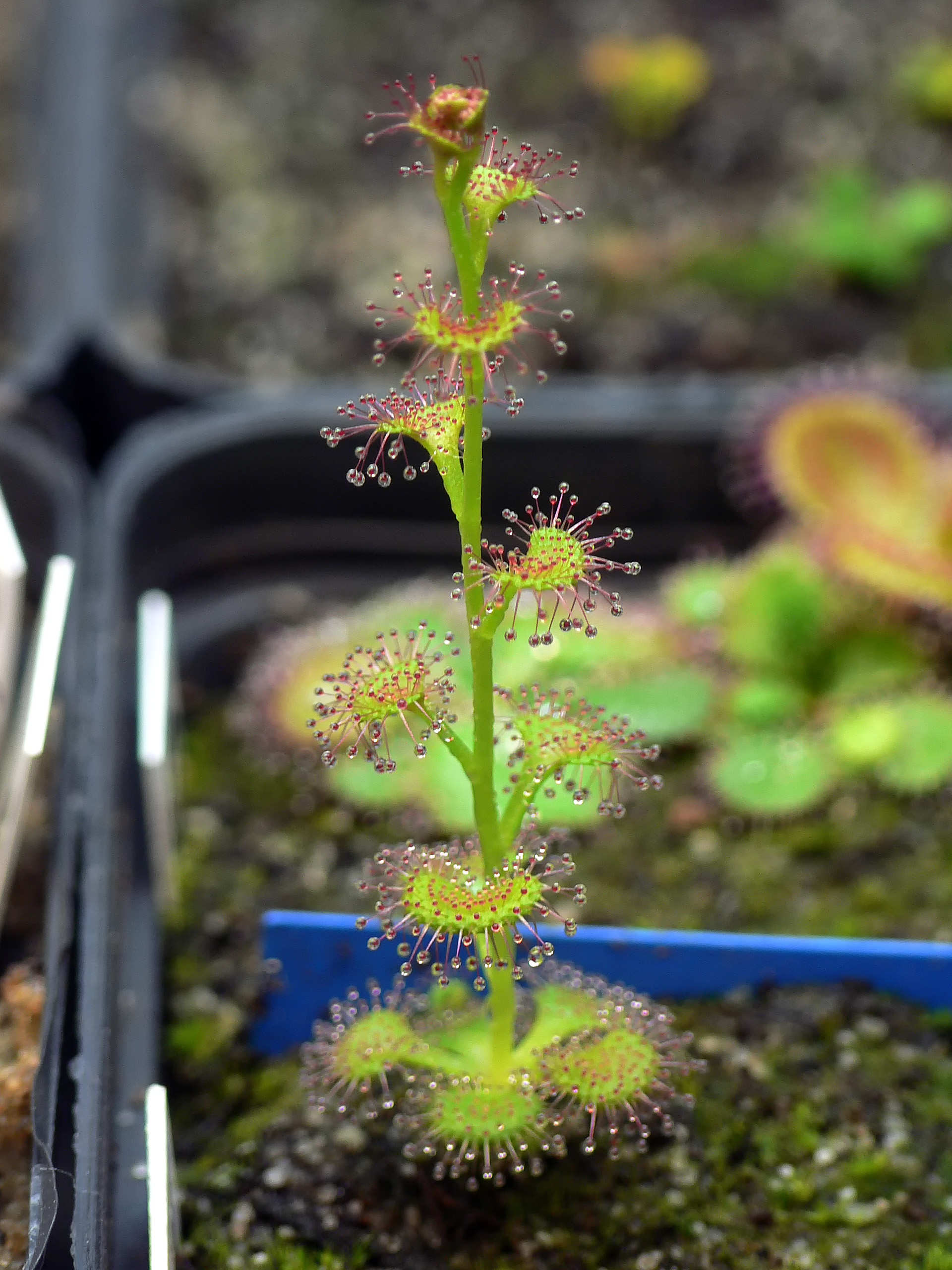 The author licensed this picture in a letter to the uploader as follows: "Ich lizensiere die Bilder [..] unter der GNU-FDL." (Translation: "I license the pictures [..] as GNU-FDL.") Drosera platypoda habit